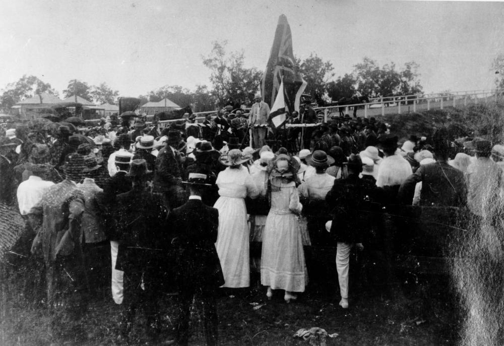 Dedication of the Soldiers' Memorial at Chinchilla, 1919. Unveiling of the Soldiers' Memorial at Chinchilla. The ceremony was performed by the Governor of Queensland, Sir Hamilton Gould-Adams. (Information taken from : The Queenslander, 22 February, 1919).